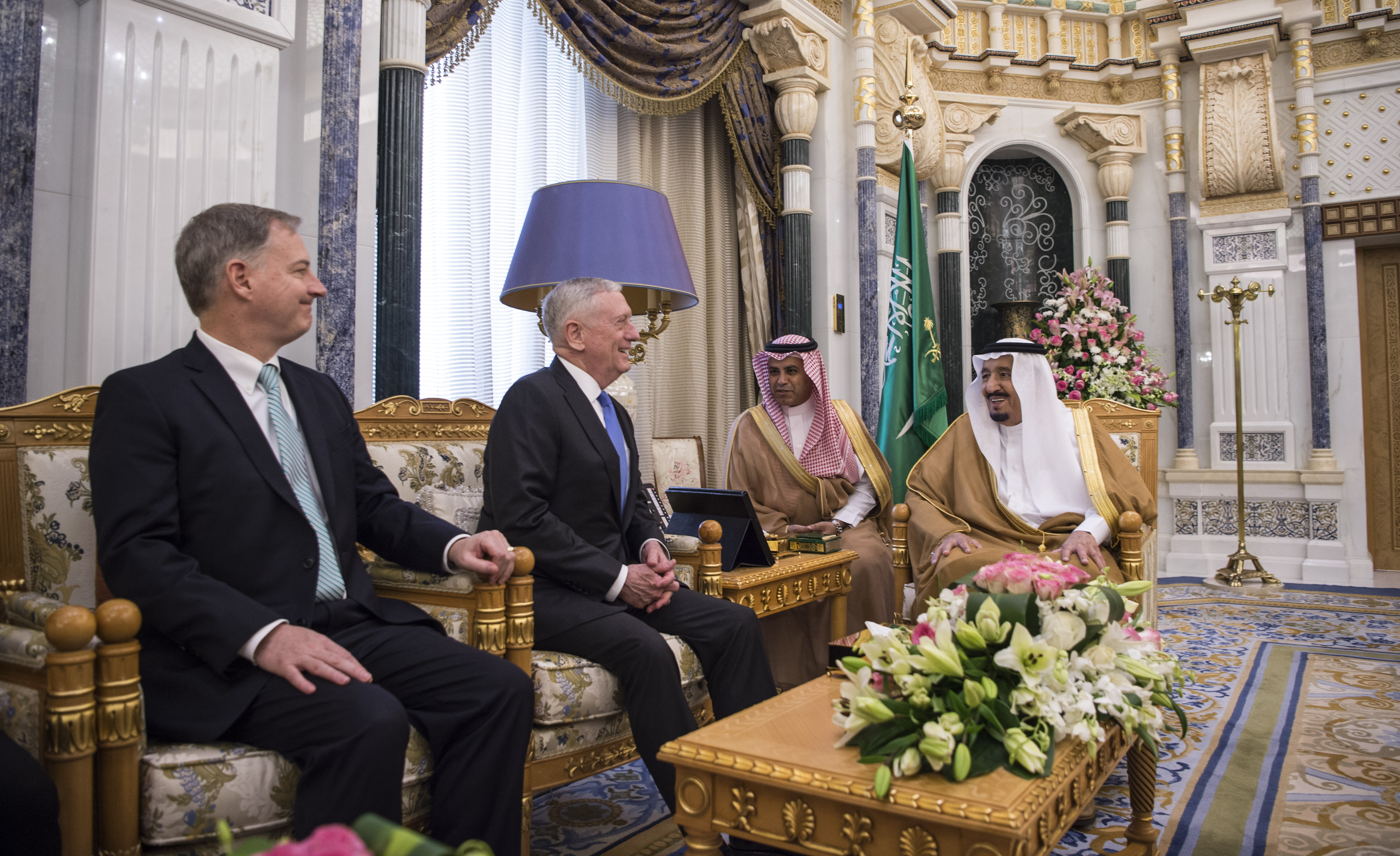 Secretary of Defense Jim Mattis meets with Saudi Arabia’s King Salman Bin Abdulaziz Al-Saud in Riyadh, Saudi Arabia, April 19, 2017. (DOD photo by U.S. Air Force Tech. Sgt. Brigitte N. Brantley)